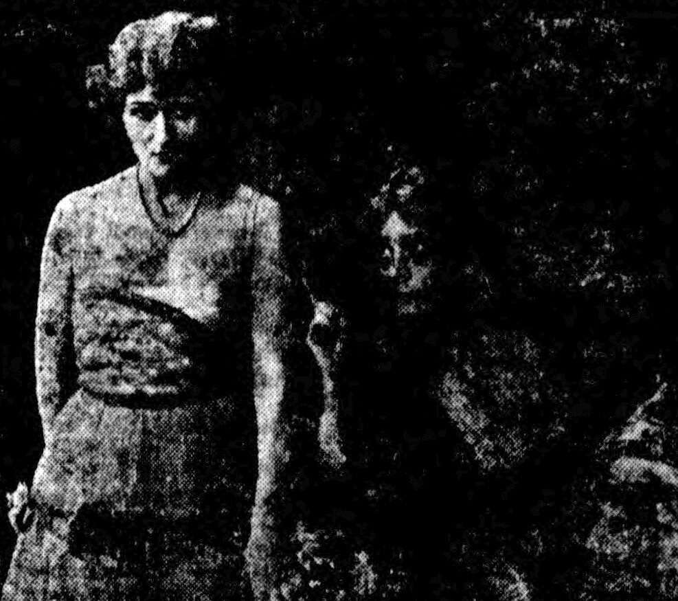 Miss Robinson Crusoe is a 1917 silent American comedy-drama film, directed by Christy Cabanne. Scene from the film as published in a newspaper.